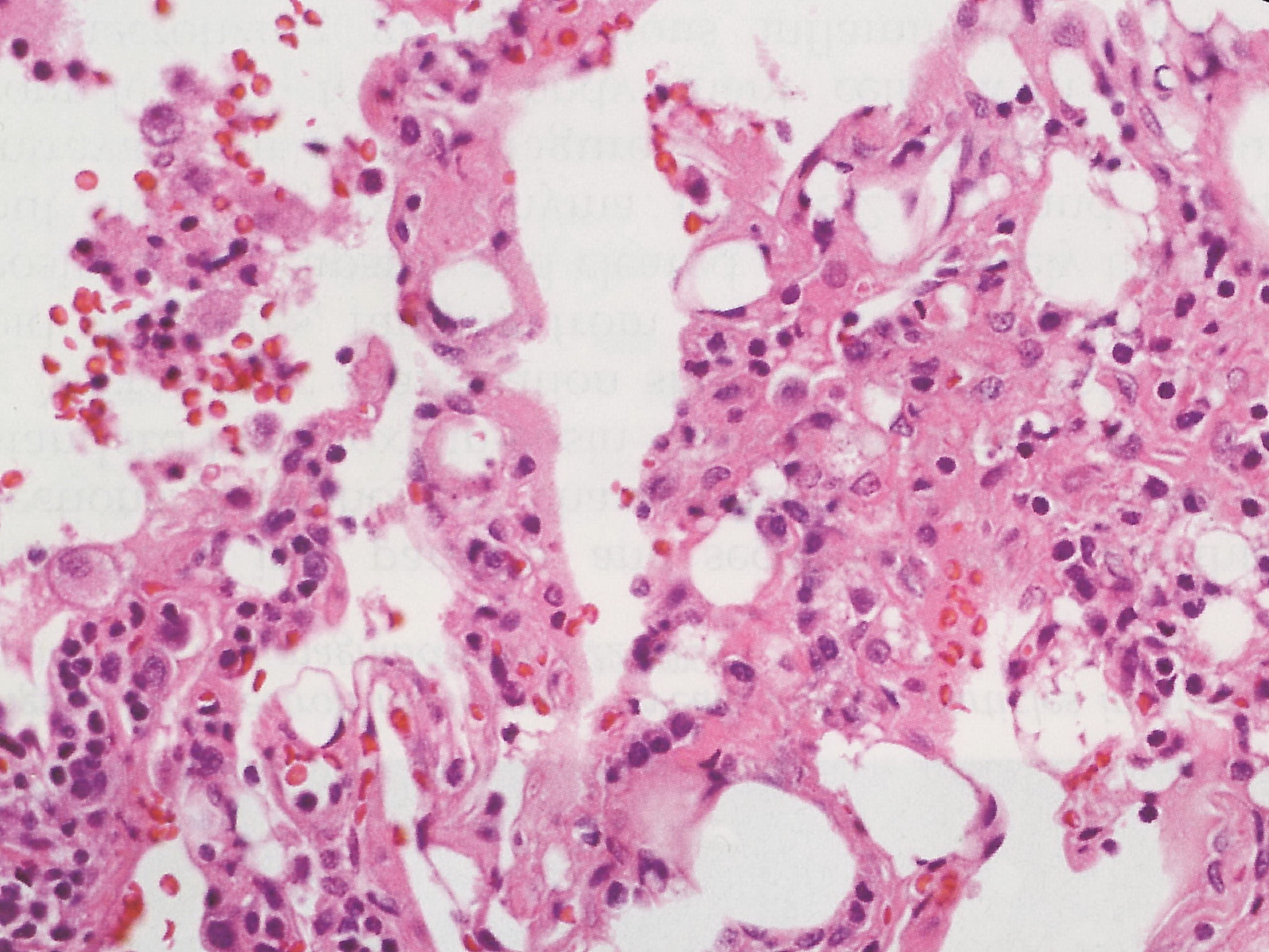 Silicone in pulmonary capillaries. Silicone embolization involving the lung is usually caused by subcutaneous injection of silicone for cosmetic purposes.